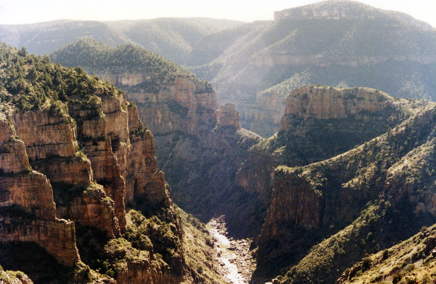 Salt River Canyon and the Salt River — in Gila County, Arizona. In 1990.